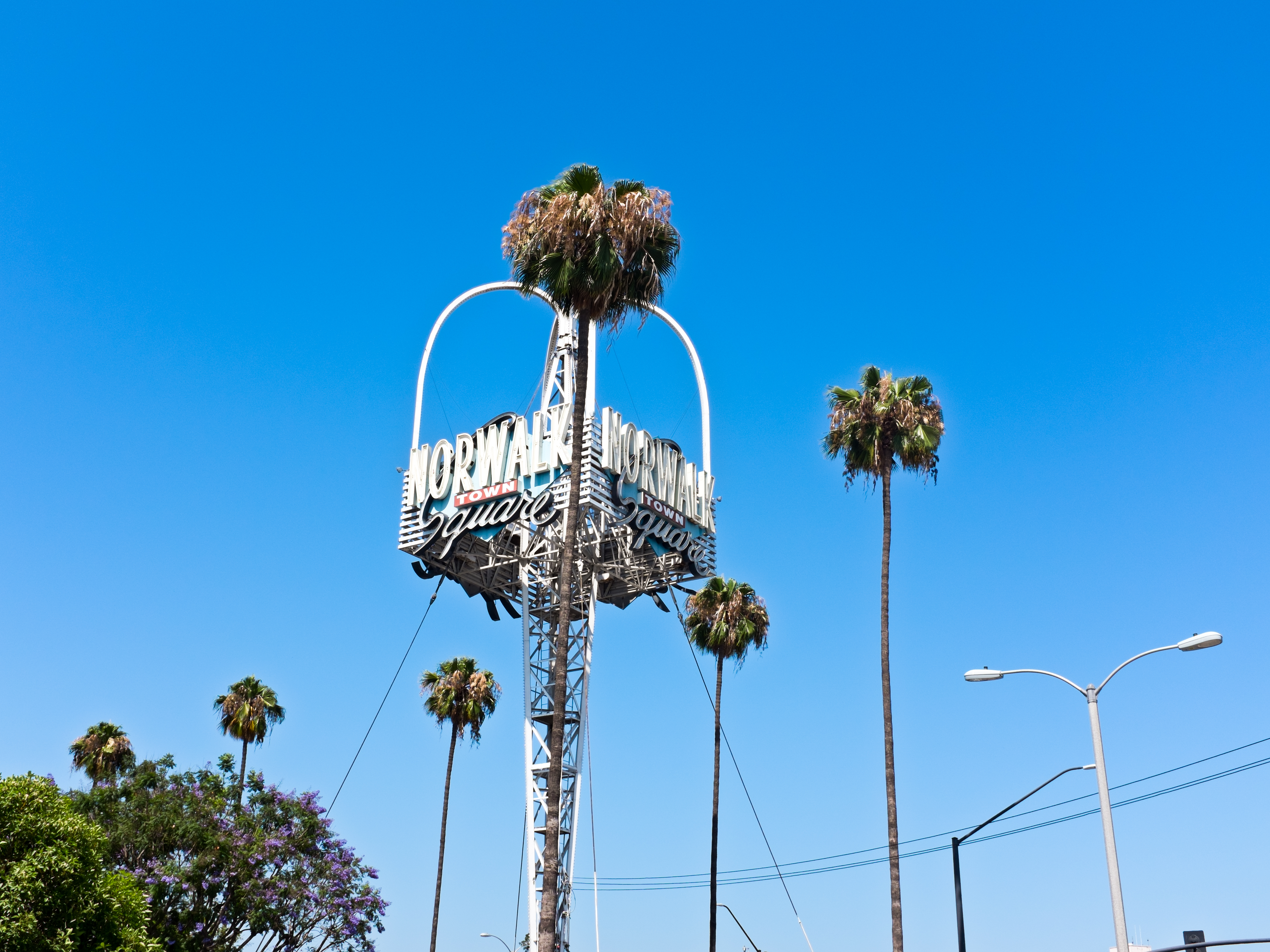 Old Norwalk Town Square Shopping Center sign in Norwalk, California at the intersection of Pioneer and Rosecrans